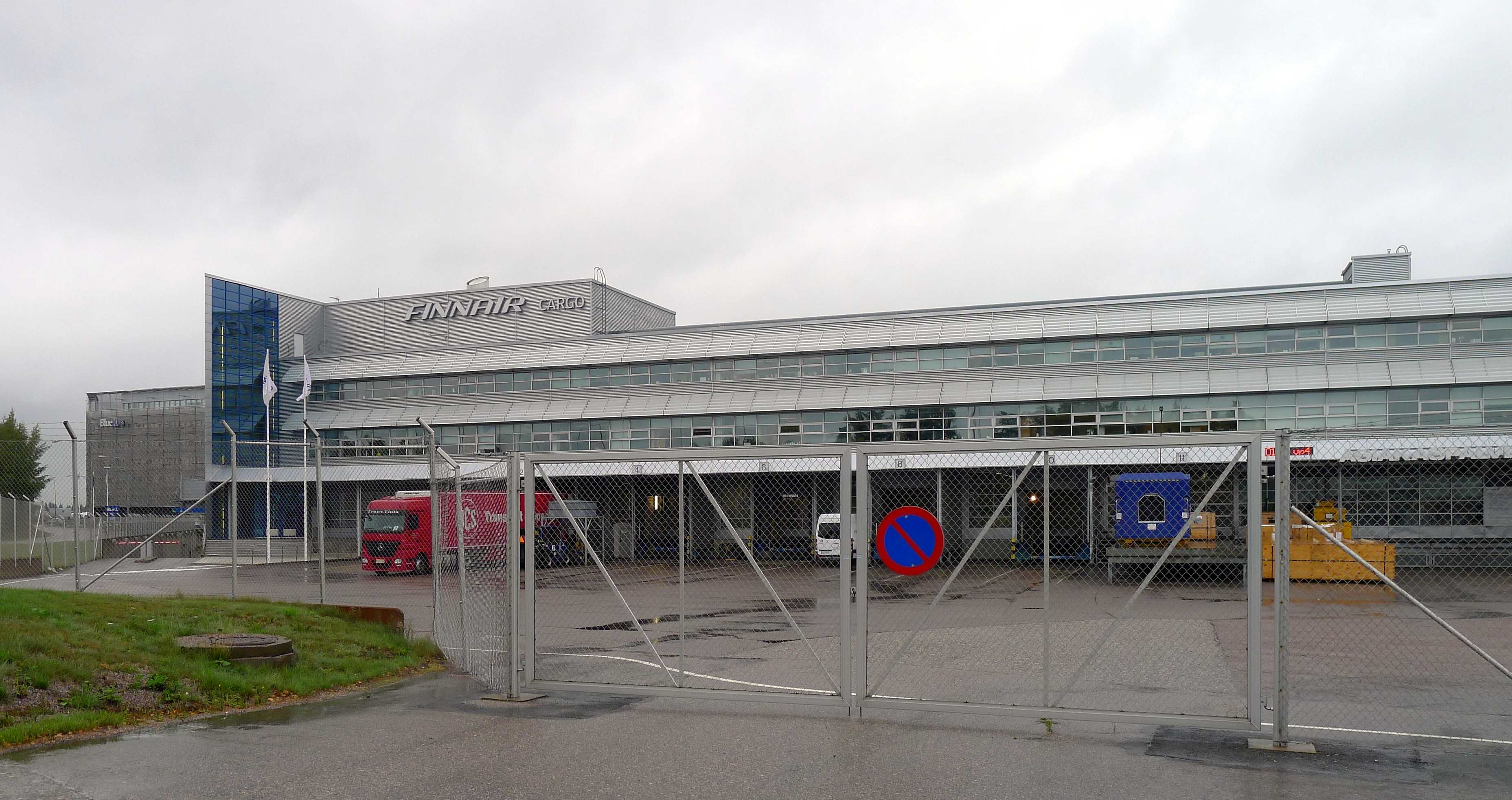 Finnair Cargo offices at Helsinki-Vantaa airport